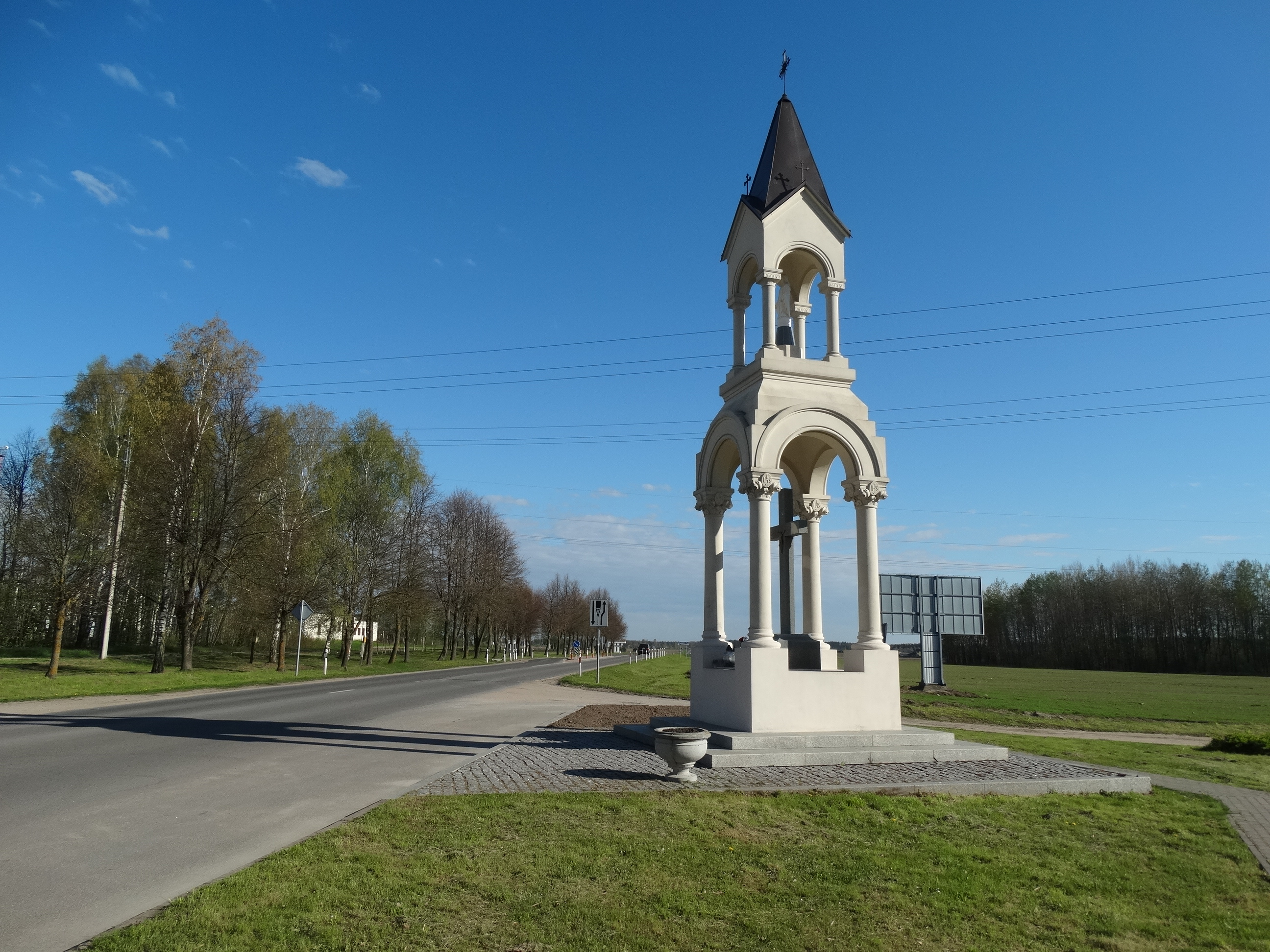 Wayside chapel, Šalčininkai, Lithuania